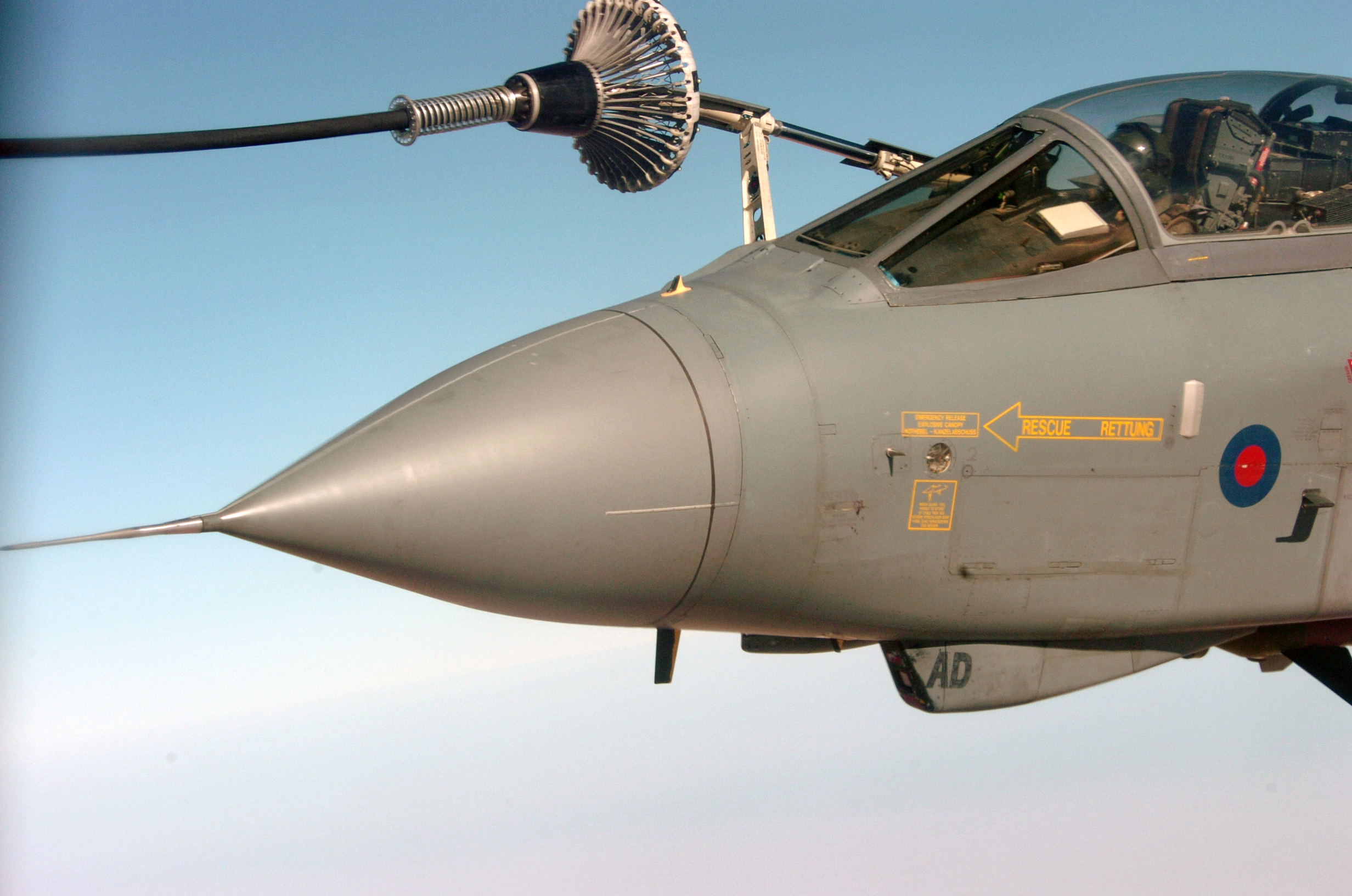 Iraq (Jan. 11, 2005) - A Royal Air Force GR4 Tornado attack aircraft refuels off the right wing of a British VC-10 aircraft assigned to 10 Squadron. The VC-10 aircraft is a dual role transport and air-to-air tanker, which can refuel two aircraft at a time. 101 Squadron currently refuels fighter aircraft over Iraqi territory in support of Operation Iraqi Freedom. U.S. Navy photo by Photographer's Mate Class 2nd Peter J. Carney (RELEASED)